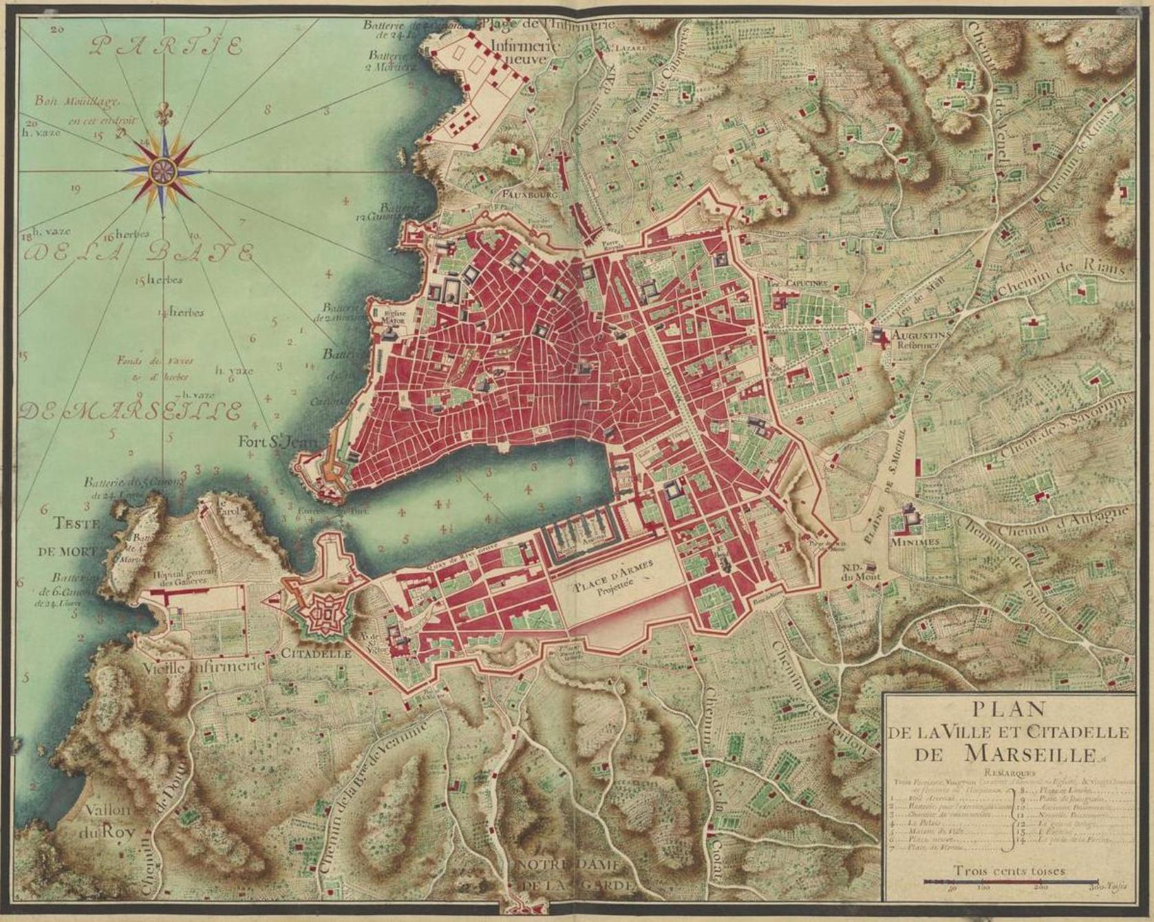 Map of the city port and the citadel of Marseille in 1700.